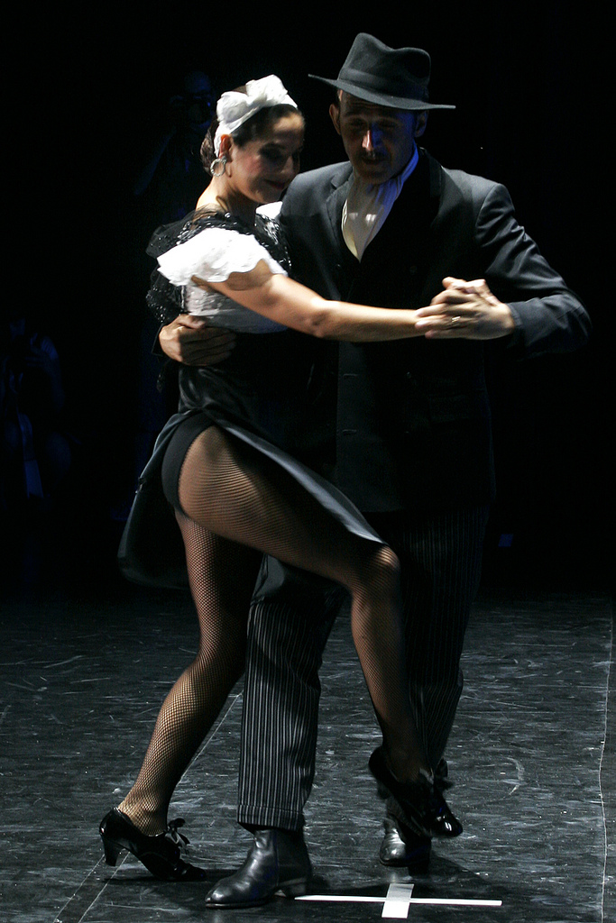 Tango Argentino, Claudio Segovia's spectacle,Obelisco, Buenos Aires, fev 2011. Silvia Toscano & Gabriel Bordón dance "El entrerriano".